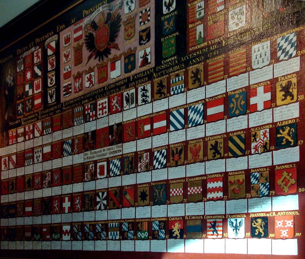 Large panel (1751) with the painted coats of arms of the cities of the prince-bishopric of Liège and the 101 bishops of Tongeren-Maastricht-Liège (the last 6 entries were added later).